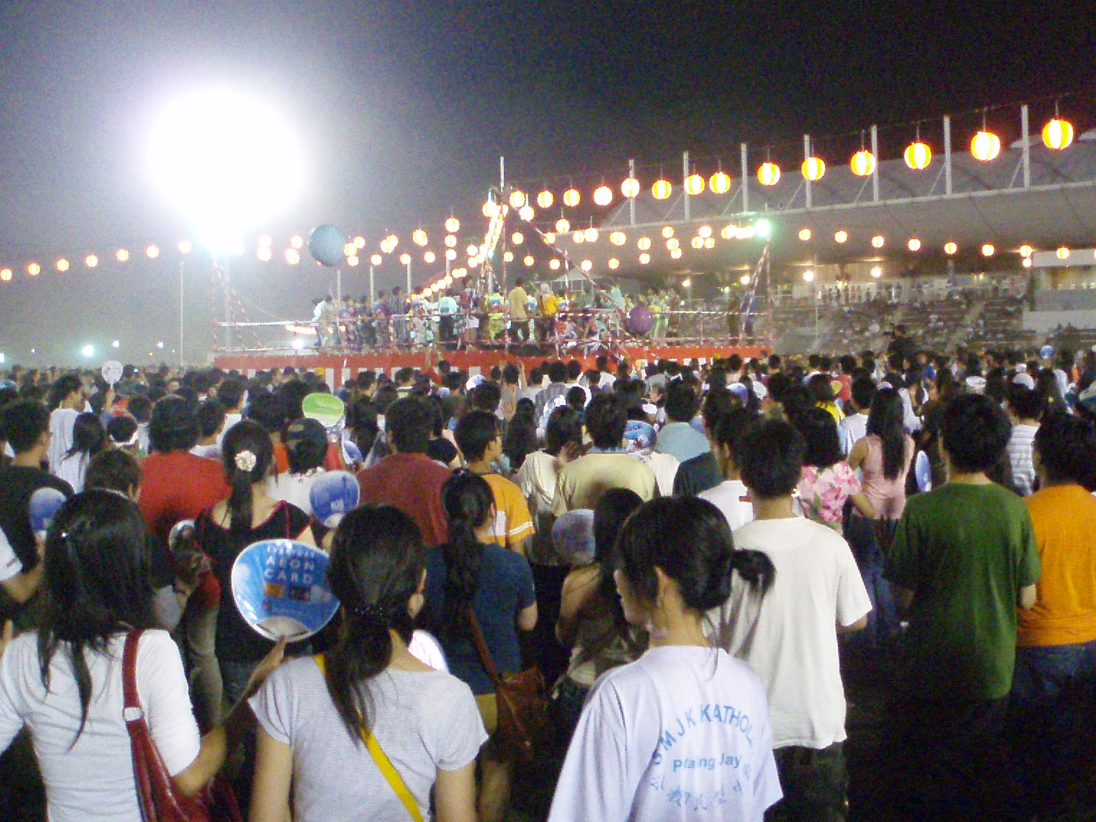 Bon Odori 2009 @ Panasonic Sports Complex, Shah Alam, Petaling, Selangor, Malaysia